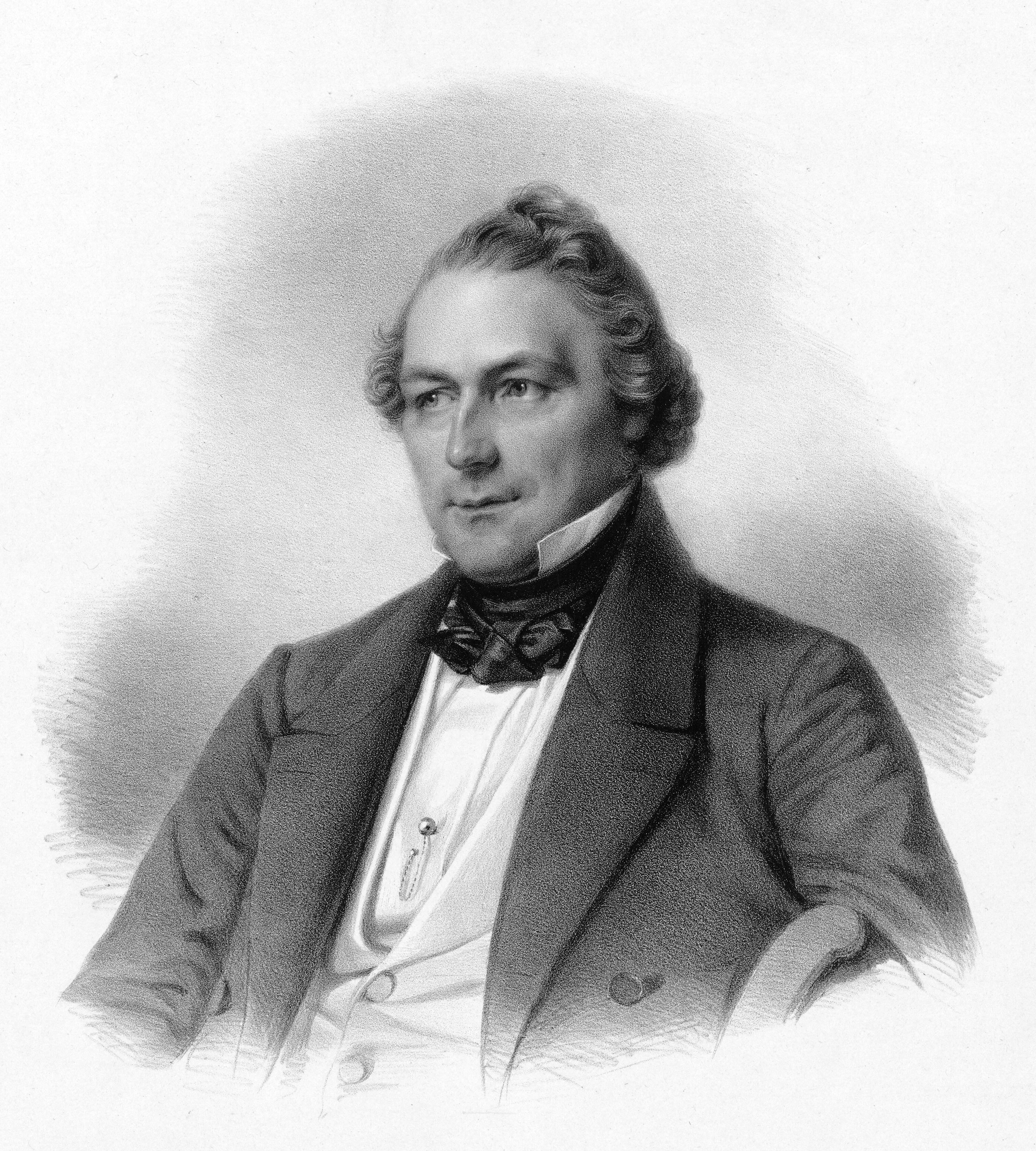 Depicted person: Friedrich Wilhelm Jähns